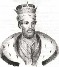 Vasily Yaroslavich Grand Dukes of Vladimir (1241—1276).